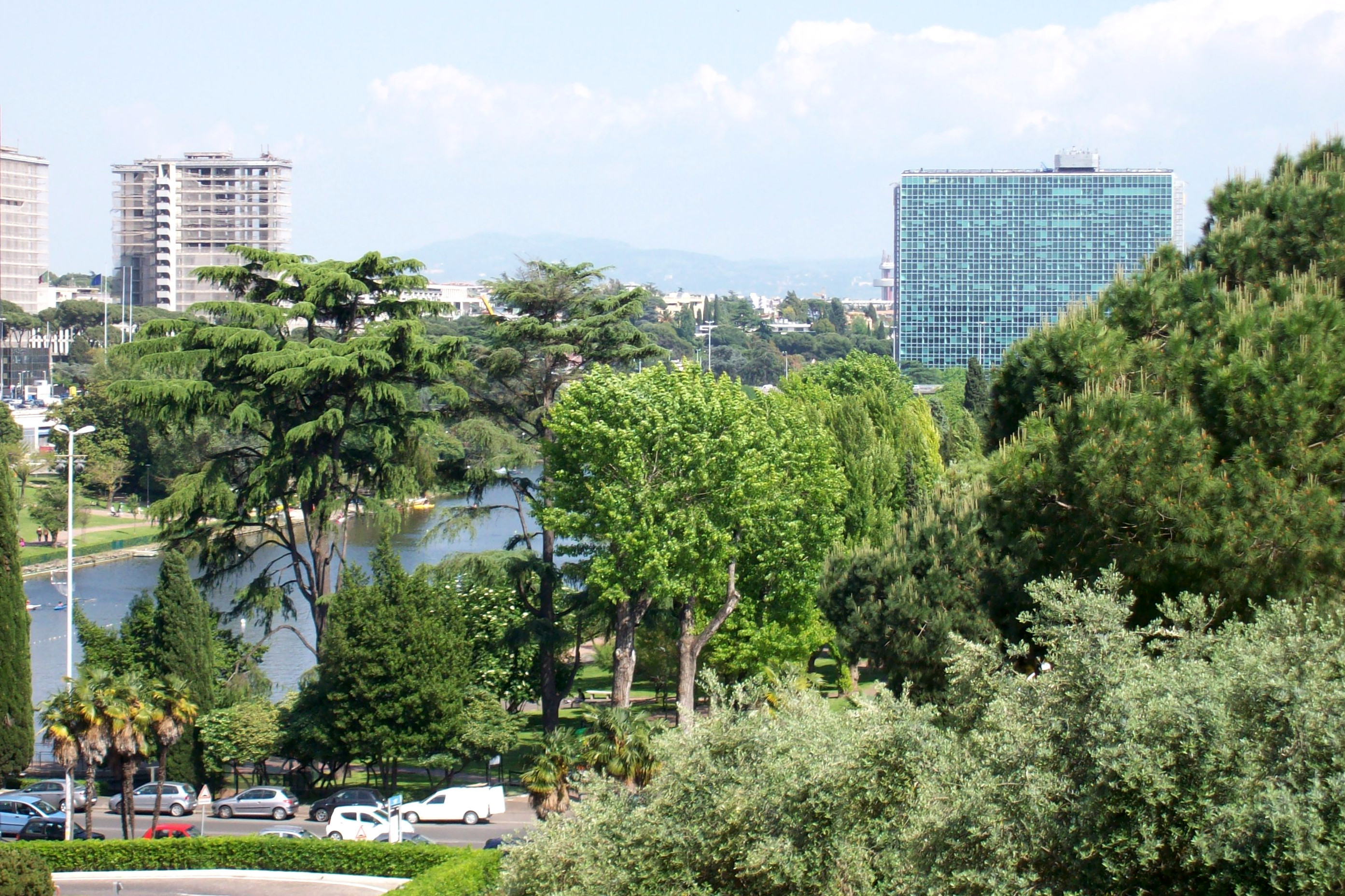 A view of EUR in Rome.